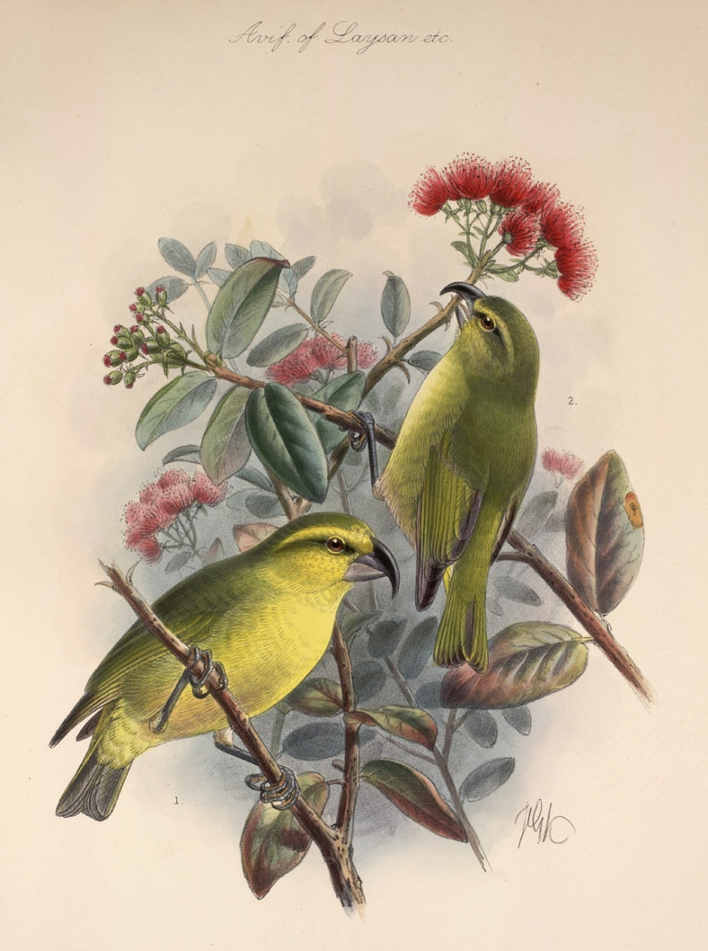 (Pseudonestor xanthophrys), Rotsch. 1. male, 2. female 1 male; 2 female